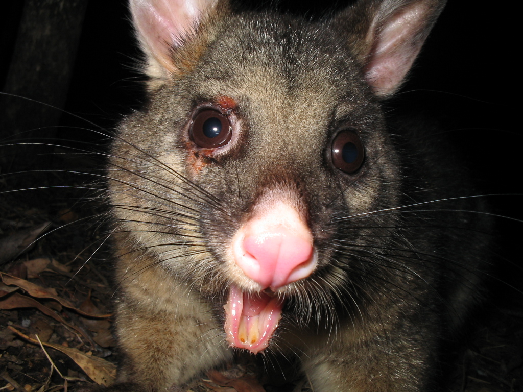 Common Brushtail Possum, Grampians National Park, Victoria, Australia